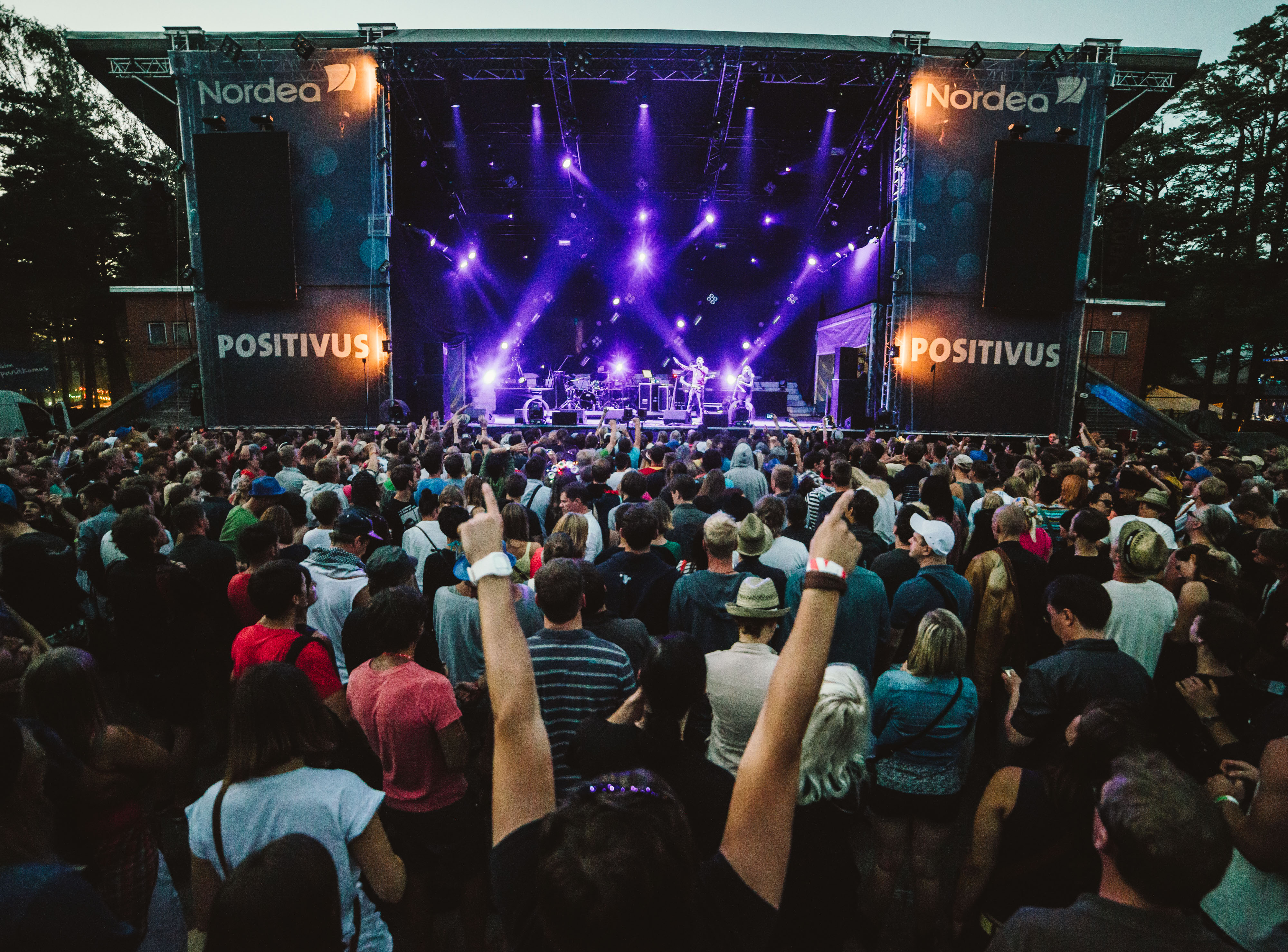 Music festival Positivus. Tricky performing on Nordea stage. 19th July, 2014.